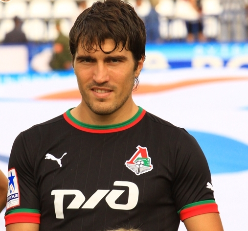 Alberto Zapater